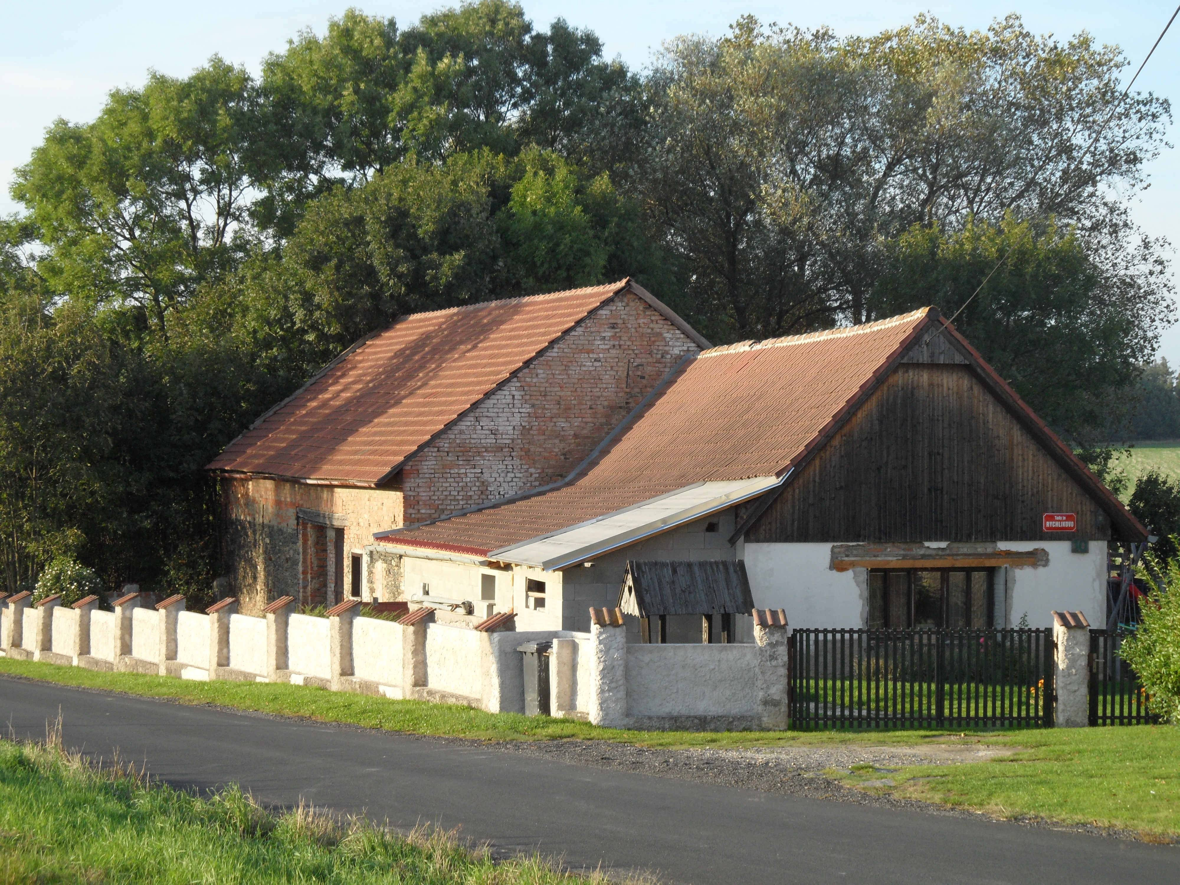 Rozkoš (Onomyšl) A. Homestead near Crossroads, Kutná Hora District, the Czech Republic.